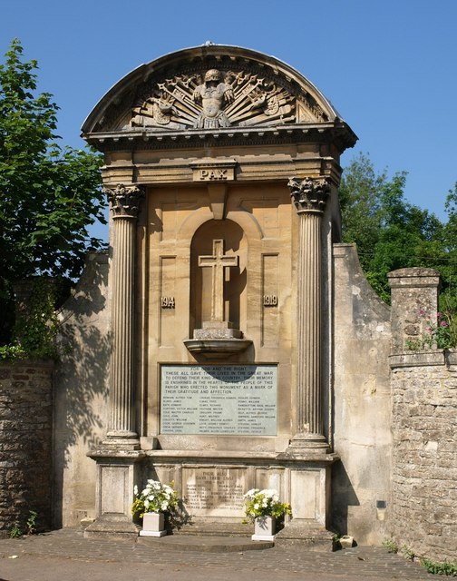 War memorial, Lacock Erected in 1920, "reusing early C18 monumental aedicule frame of memorial to Sir John Talbot (d 1714) in parish church".